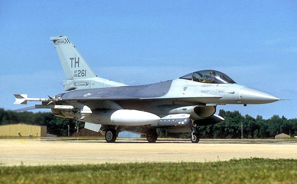 113th Fighter Squadron - General Dynamics F-16C Block 30C Fighting Falcon 86-0261